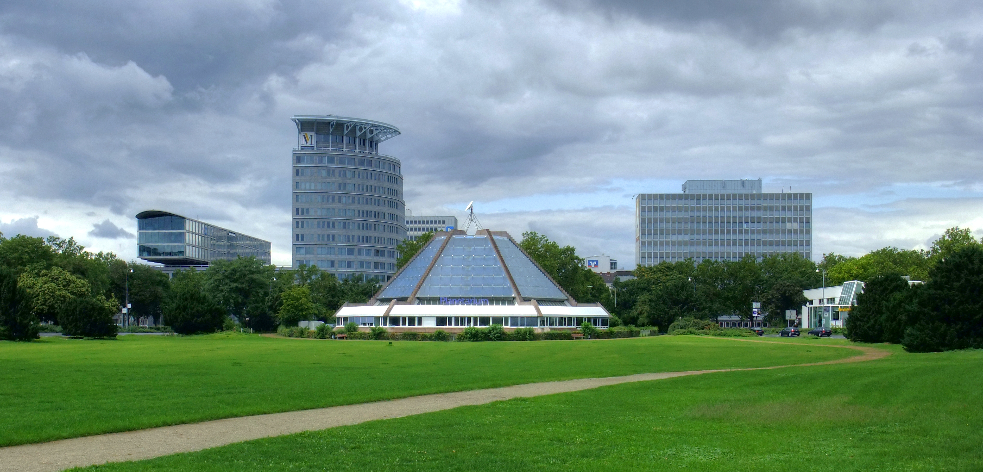 Planetarium Mannheim, Germany, view from East, Wilhelm-Varnholt-Allee, at the End of the highway (Autobahn) A656, Heidelberg-Mannheim